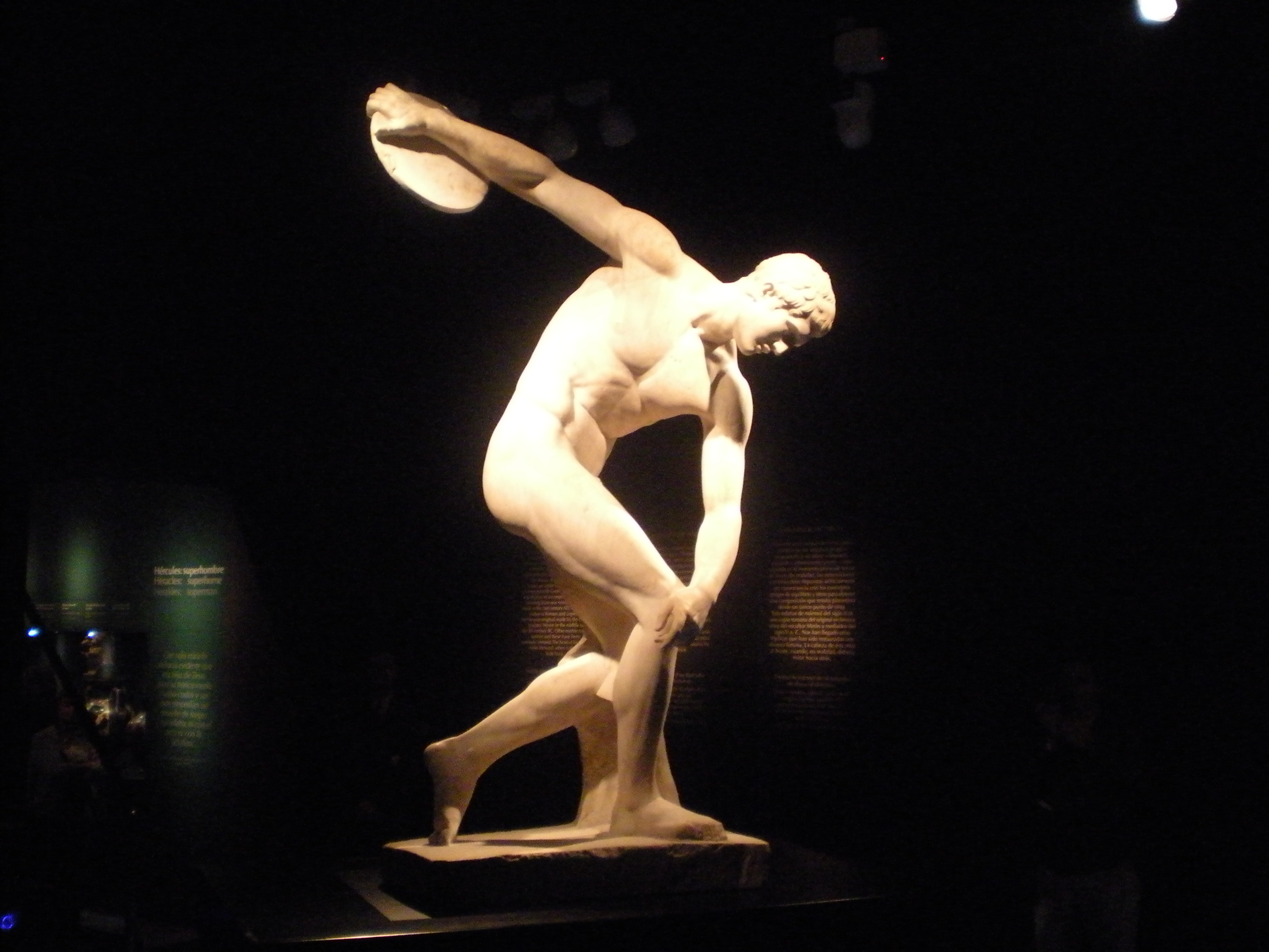 Discobolus. Marble, Roman copy after a bronze original of the 5th century BC. From the Villa Adriana near Tivoli, Italy.